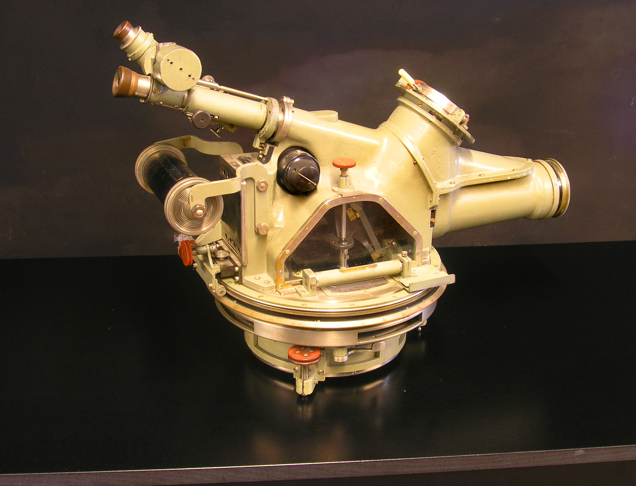 Circumzenithal in the V. Šafařík museum in the Czech Astronomical Institute in Ondřejov